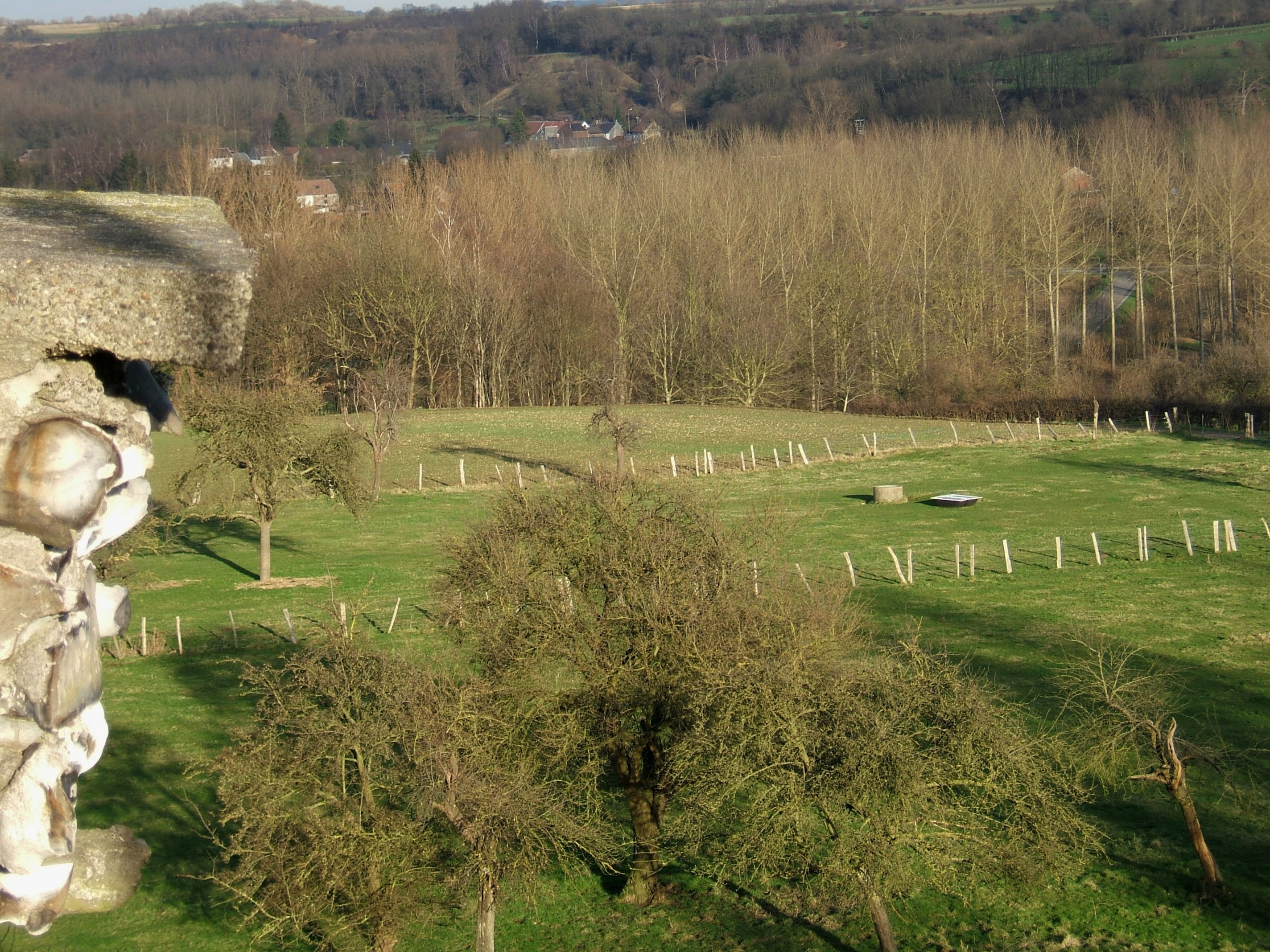 Panoramic view to the southeast Eben-Ezer.